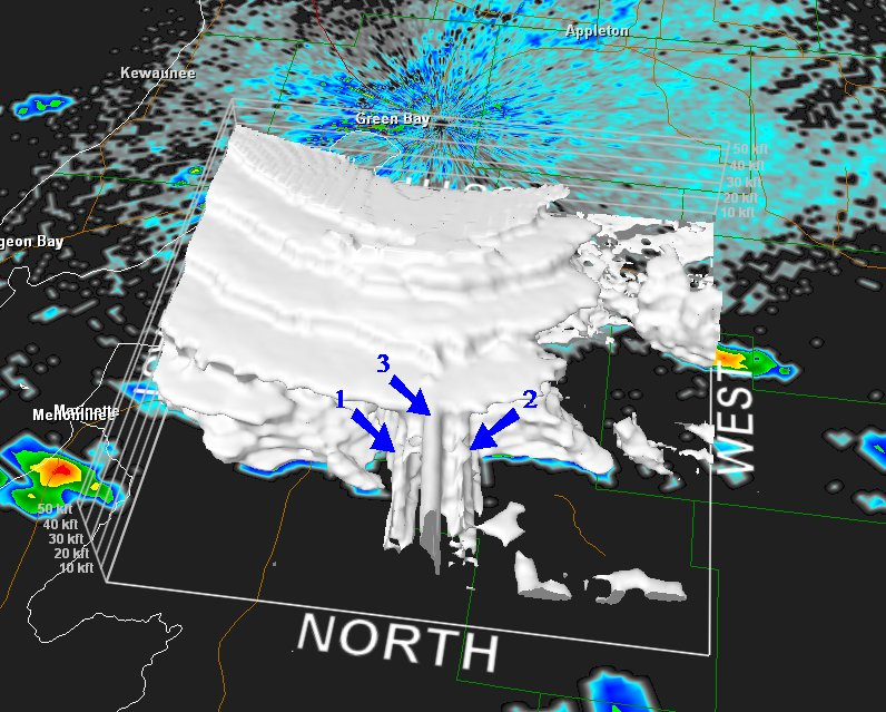 3-D -9.0 dBZ isosurface image (from GR2AE) showing the three separate TBSS signatures (denoted by the blue arrows) seen in Oconto County at 2054 UTC 1 July 2006. Perspective is looking southward toward the radar and down at the storm.